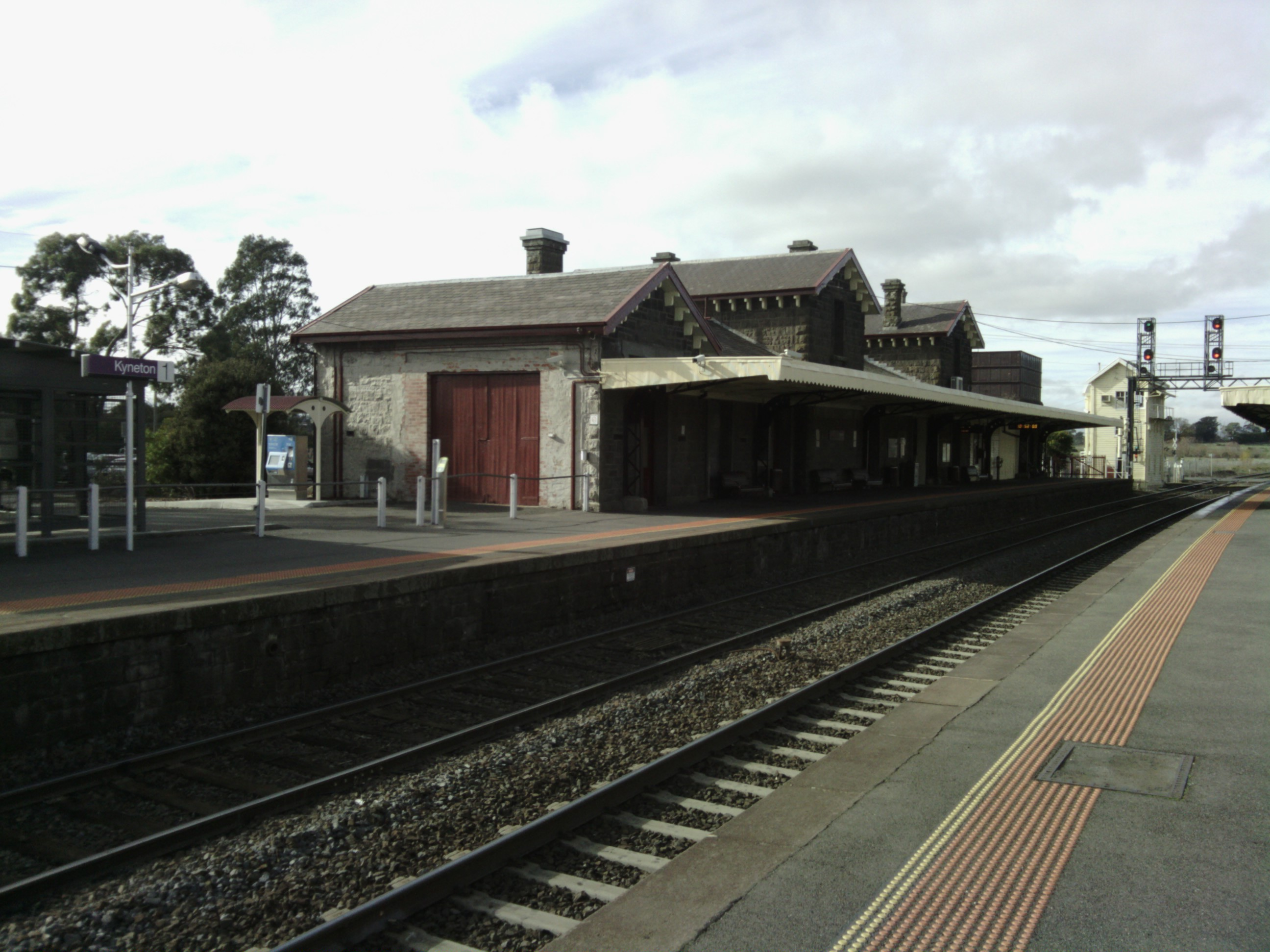 Photo of Kyneton Railway Station, Victoria, of the station buildings.